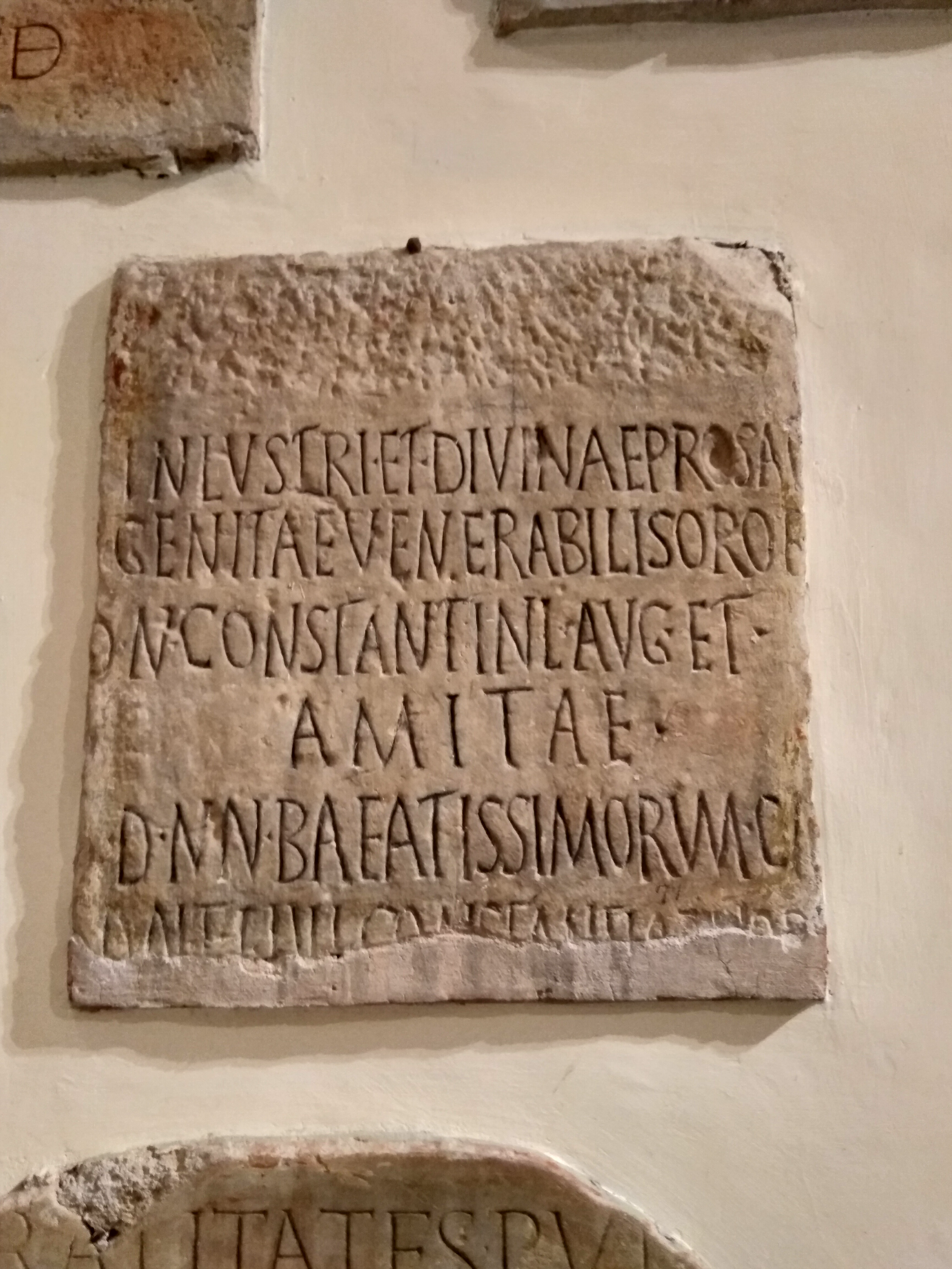 Inscription on honour of Constantia, sister of Constantine I